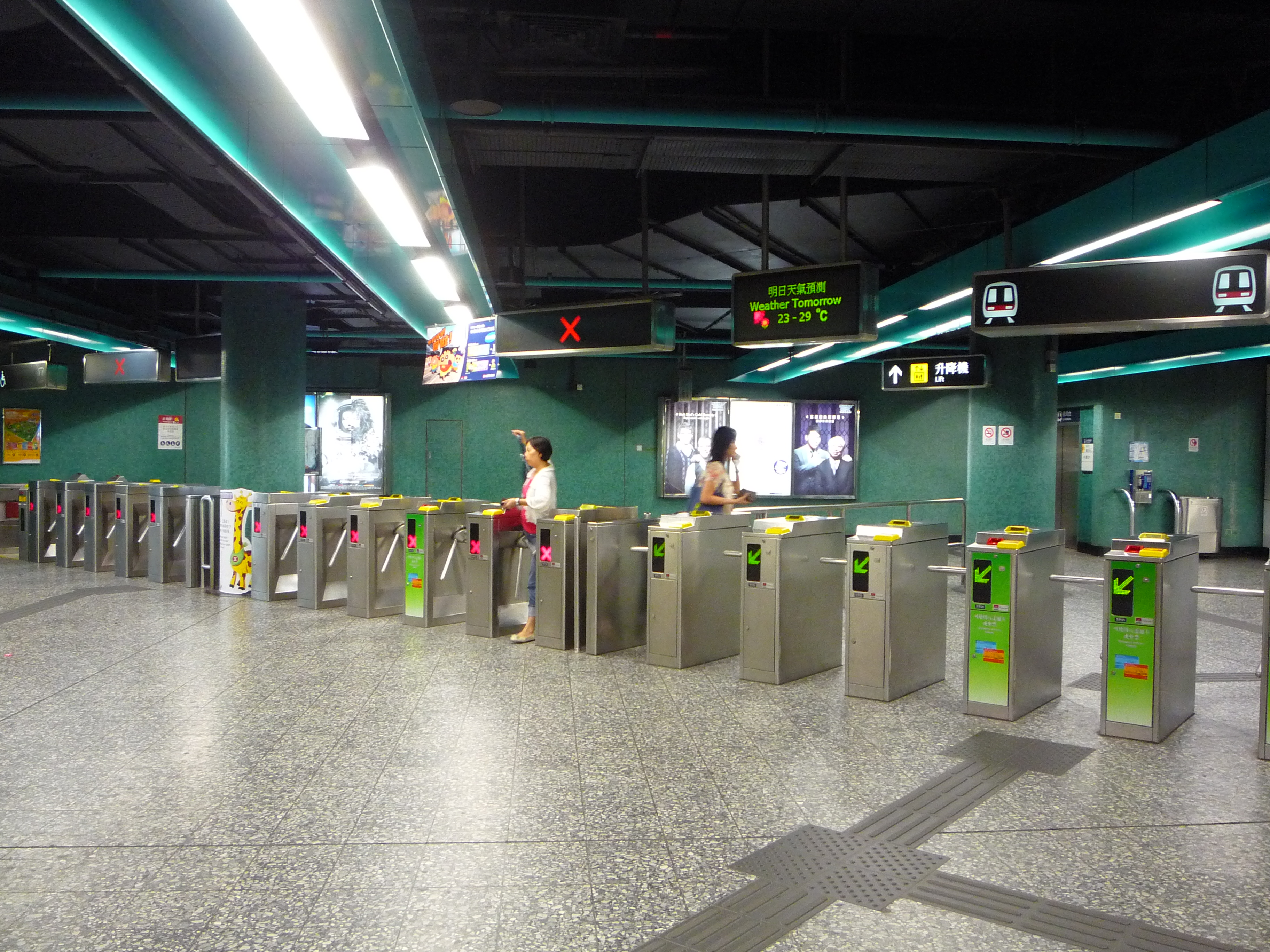 MTR Quarry Bay station east concourse